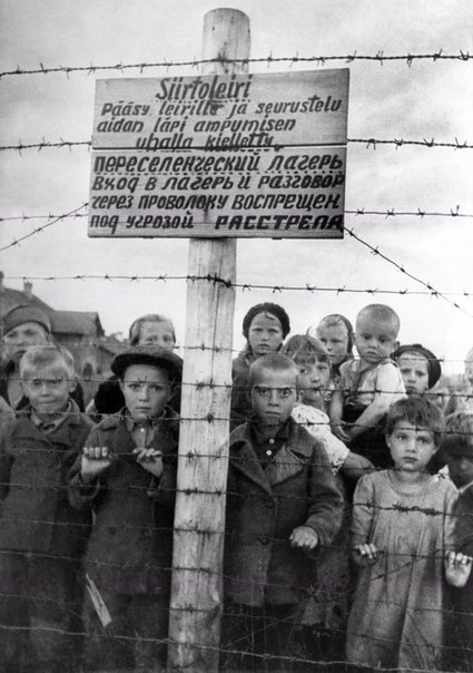 Russian children in a Finnish-run transfer camp in Petrozavodsk in the end of June, 1944 After Finns retreated from Petrozavodsk at June 28, 1944, among the first Soviet troops arrived also Soviet war correspondence Galina Sanko, who took this picture and several others. The photo was first published 1966 in I.M. Batser: Eto bylo na Karelskom fronte and after that in several Soviet and foreign papers thus becoming one of her most known.